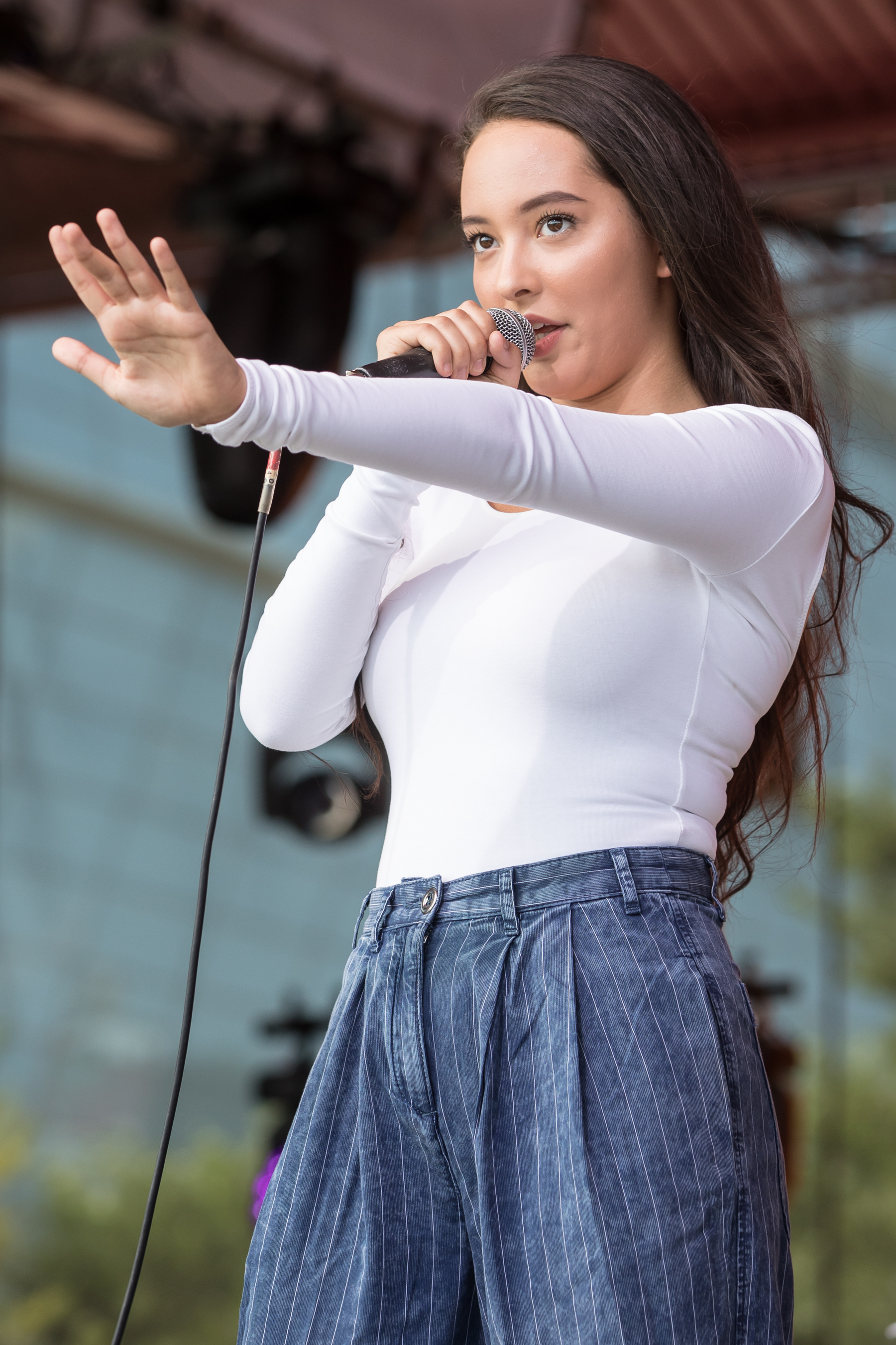 Faouzia performing at the 2017 Canada Summer Games